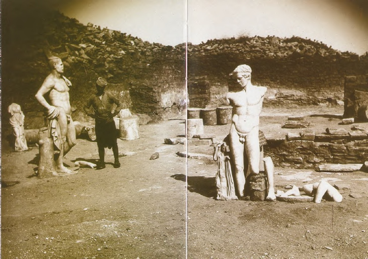 A Mykonian laborer poses between two important Roman (1st c. BC) statues, shortly after their discovery in 1894: the “Pseudo-Athlete of Delos” (left) and the “Diadoumenos” (right, a Roman-era copy of a 5th c. BC bronze by Polyclitus). Both are exhibited at the National Archaeological Museum in Athens (Archives of the French School at Athens). — Opening of The Search for Ancient Greece by Roland and Françoise Étienne, “Abrams Discoveries” & ‘New Horizons’ series, published by Harry N. Abrams (U.S.) and Thames & Hudson (UK), 1992. Scanned from the Greek edition.